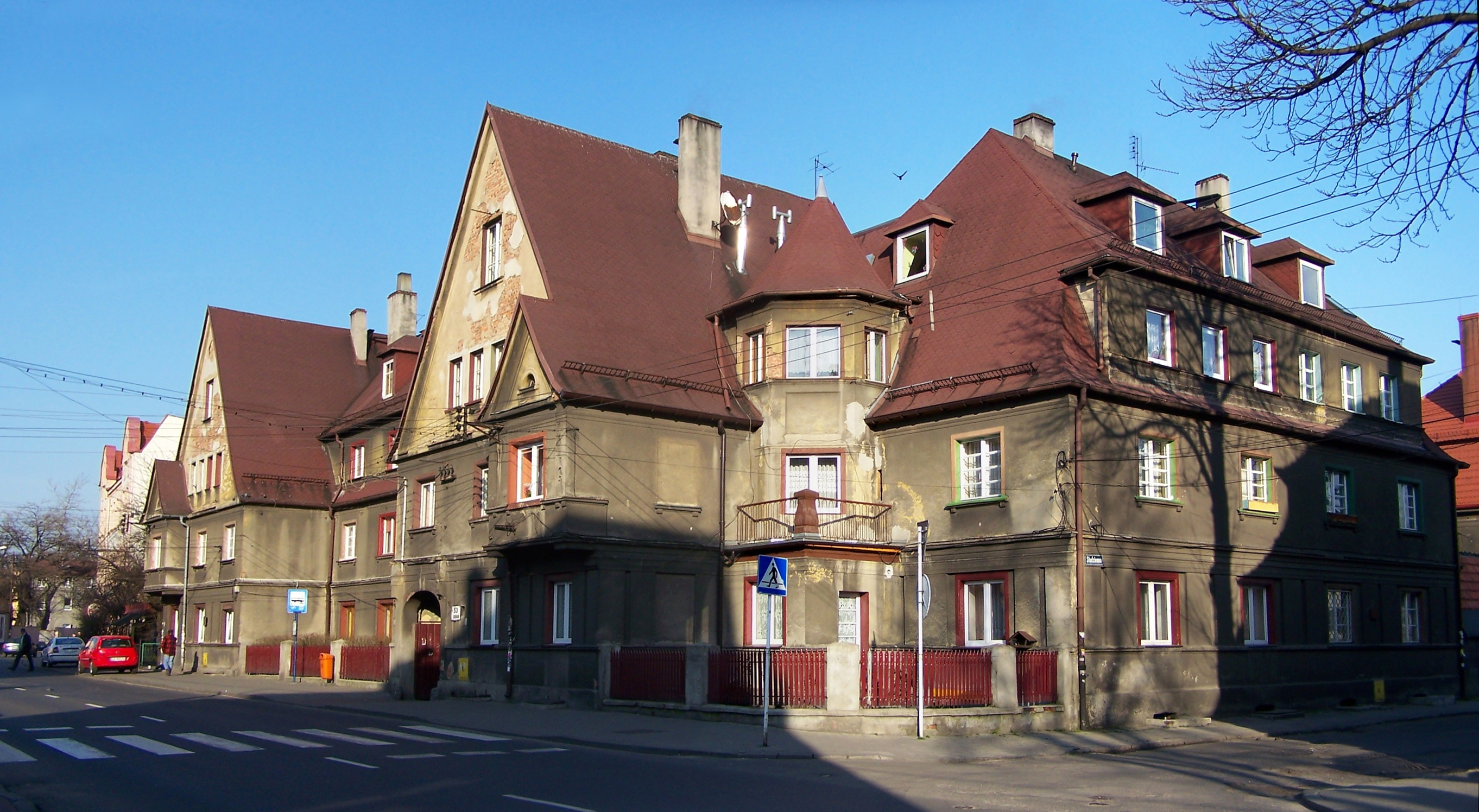 Old buildings in Dąb (Katowice, Poland).